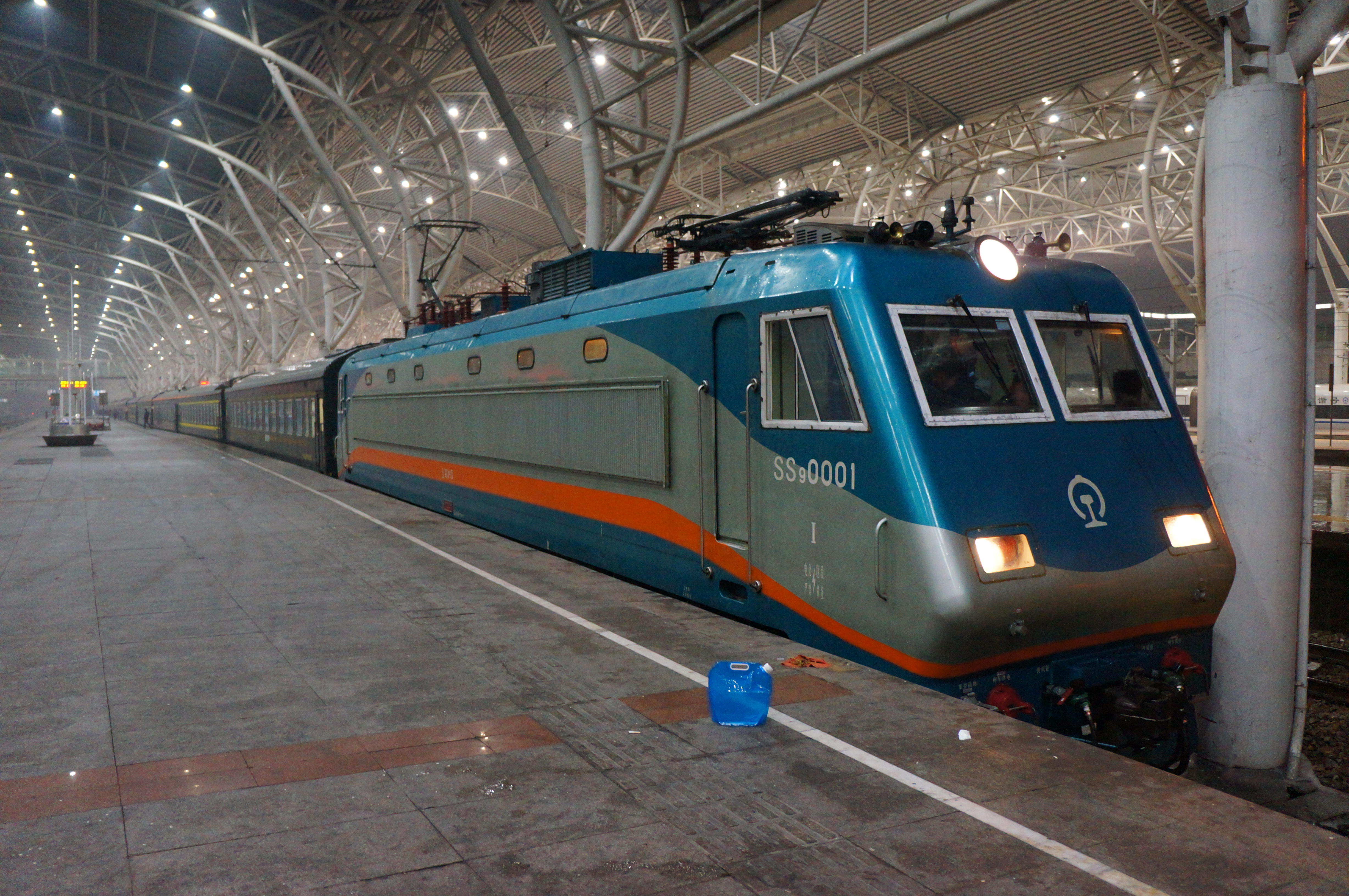 201812 SS9-0001 hauls 1461 at Nanjing Station